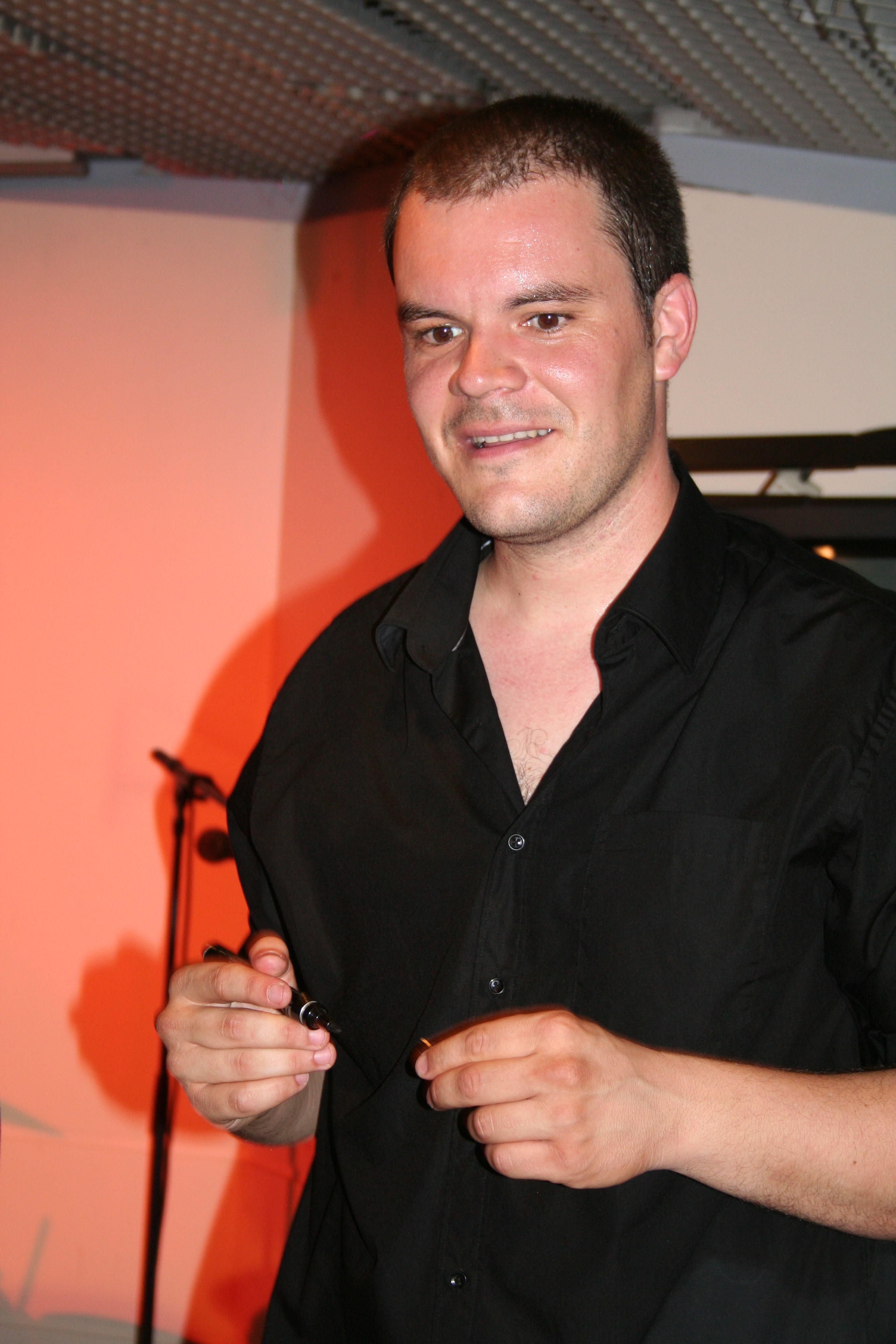 Olivier Sulpice during the show-case with Debout sur le Zinc at Fnac des Halles (Paris, France).